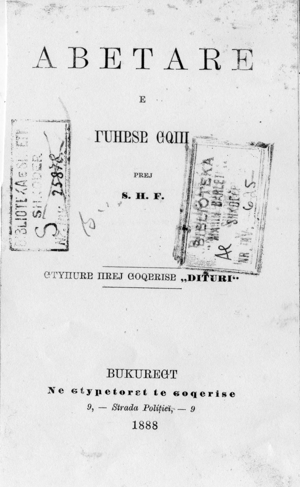 ABC-book from Sami Frashëri